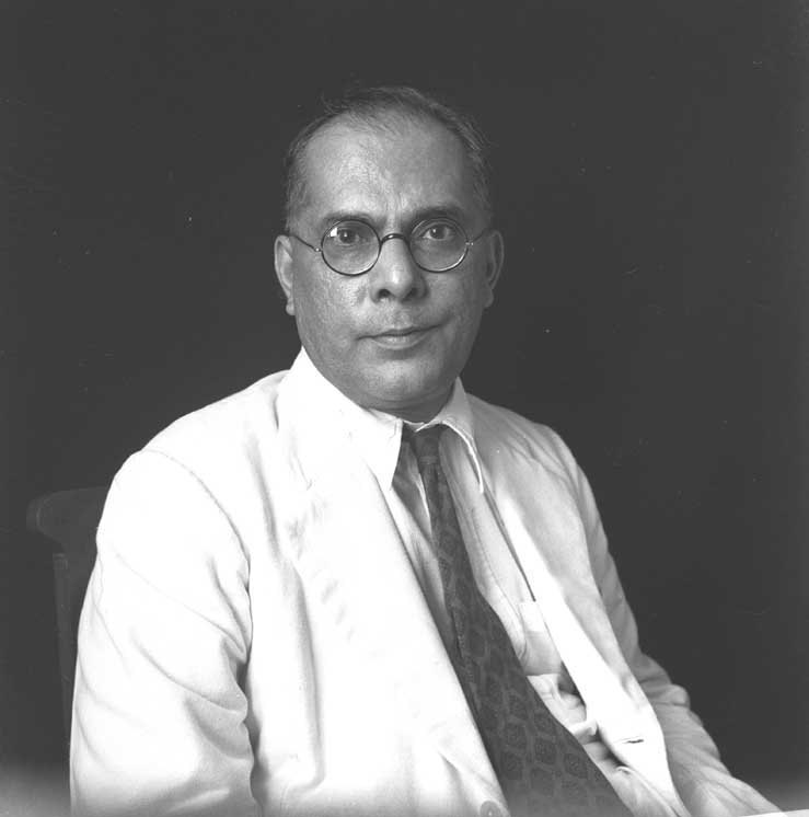 Y N Sukhtankar, the then Additional Secretary, Ministry of Commerce and Industry and later the Commerce Secretary, Govt. of India and Governor of Orissa.